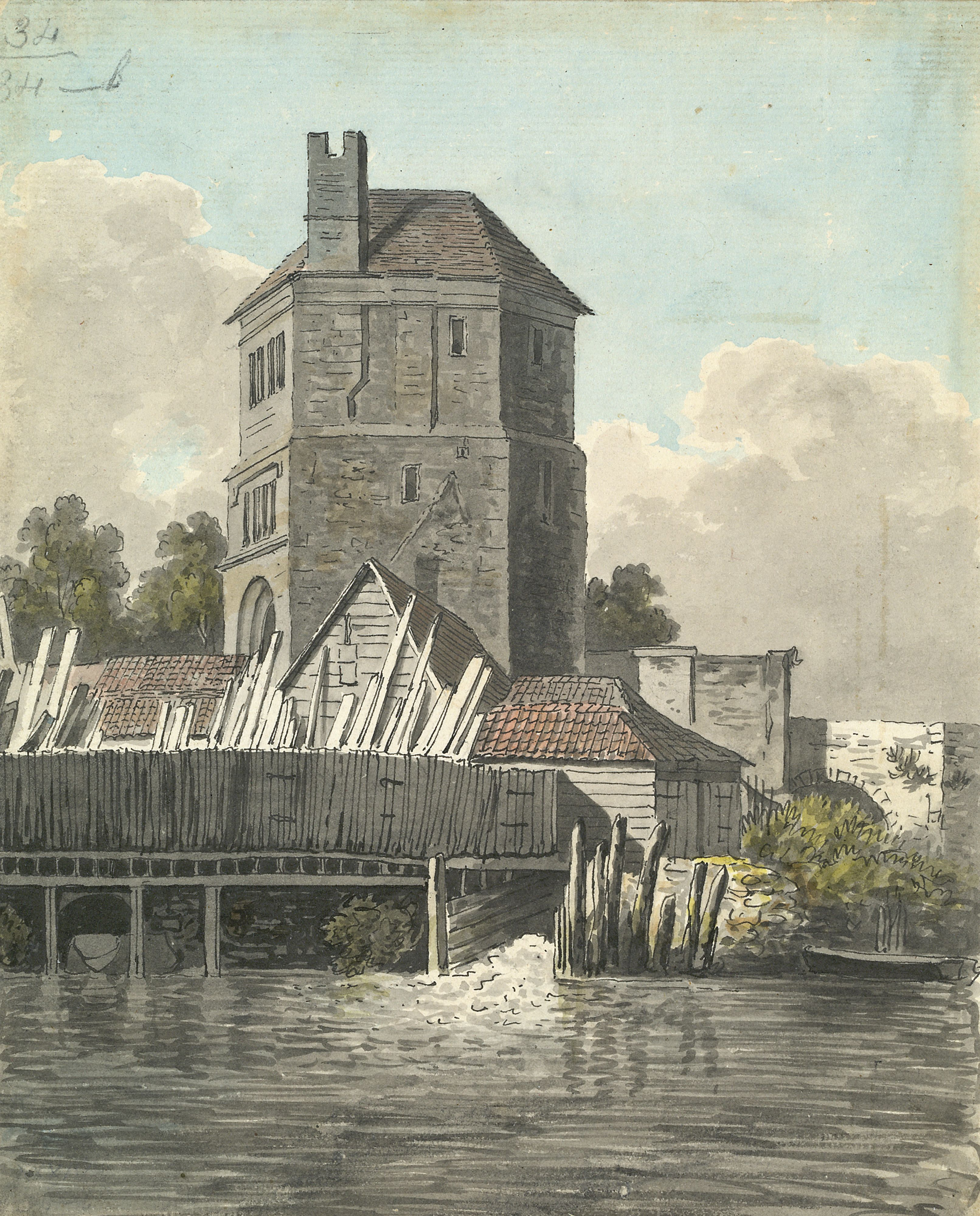 "This is an external view of the study of a Franciscan friar, Roger Bacon, an Oxford scholar famous for his unorthodox scientific and mathematical work. By the late 18th century this study, on Folly Bridge, had become a place of pilgrimage for scientists. Samuel Pepys visited it in 1669, remarking: "So to Friar Bacon's study: I up and saw it, and gave the man 1s[hilling] ... Oxford mighty fine place". The building was pulled down in the 18th century to allow for road widening."[1]